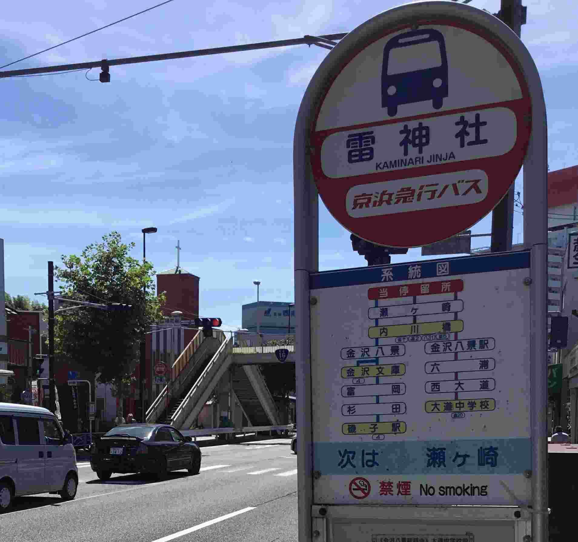 The bus stop "雷神社" (Kaminari-jinja) near the shrine "雷神社" in Yokosuka, Kanagawa, Japan.